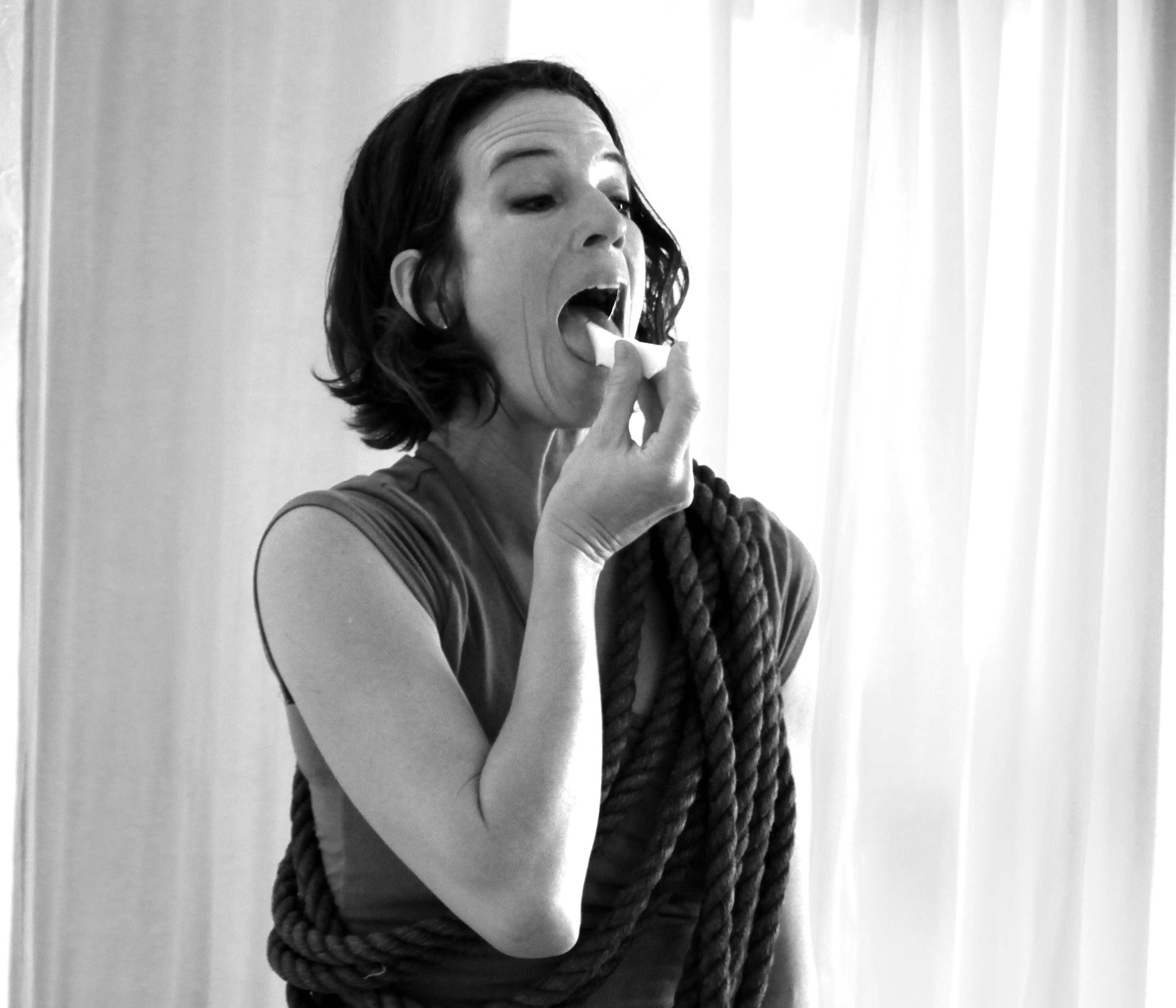 Leán Coetzer, performs "A Boat Called "Me" at the Darling Voorkamerfest 2014